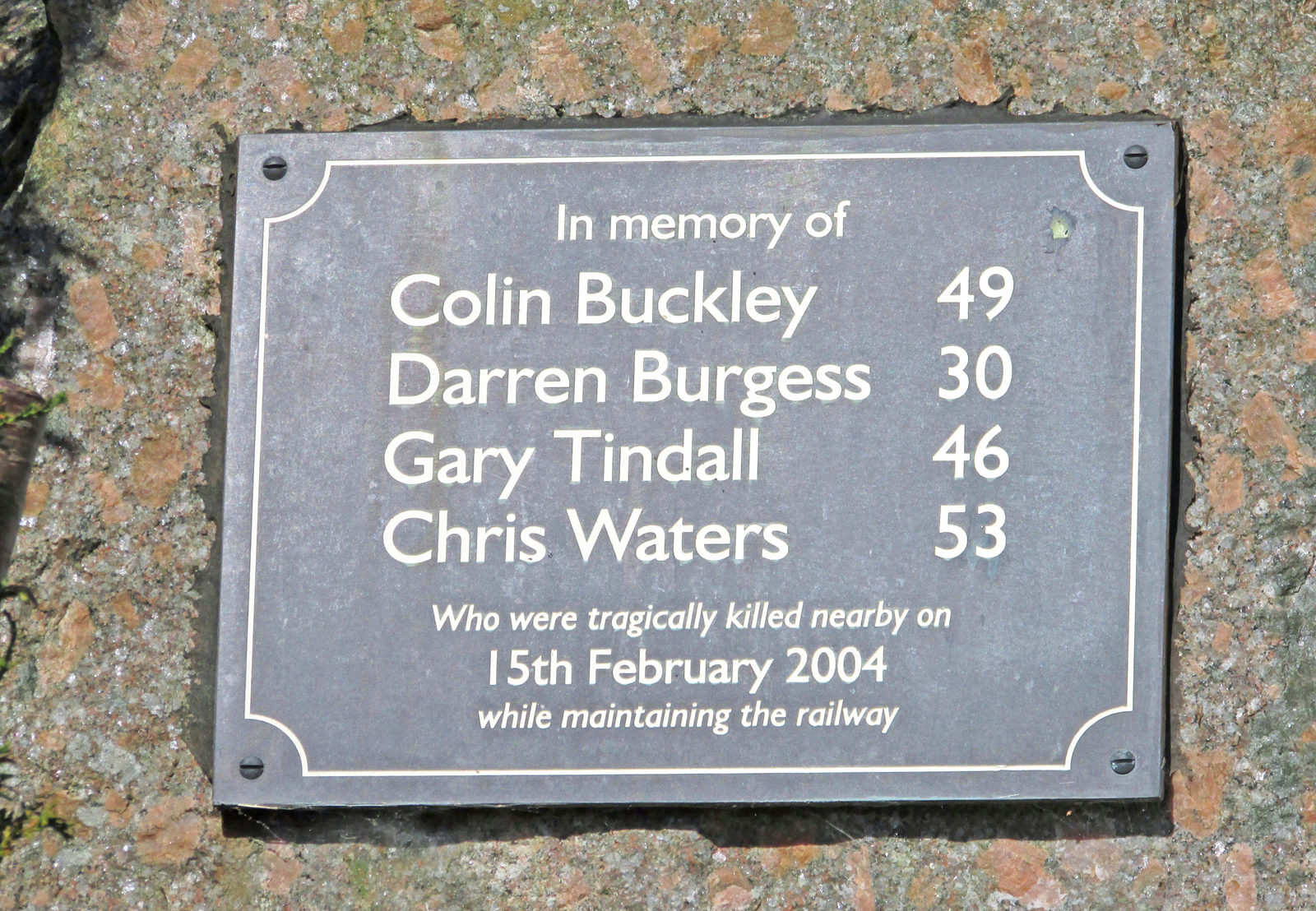 Memorial Plaque to four workers killed on the WCML near Tebay by a runaway railway wagon in 2004.